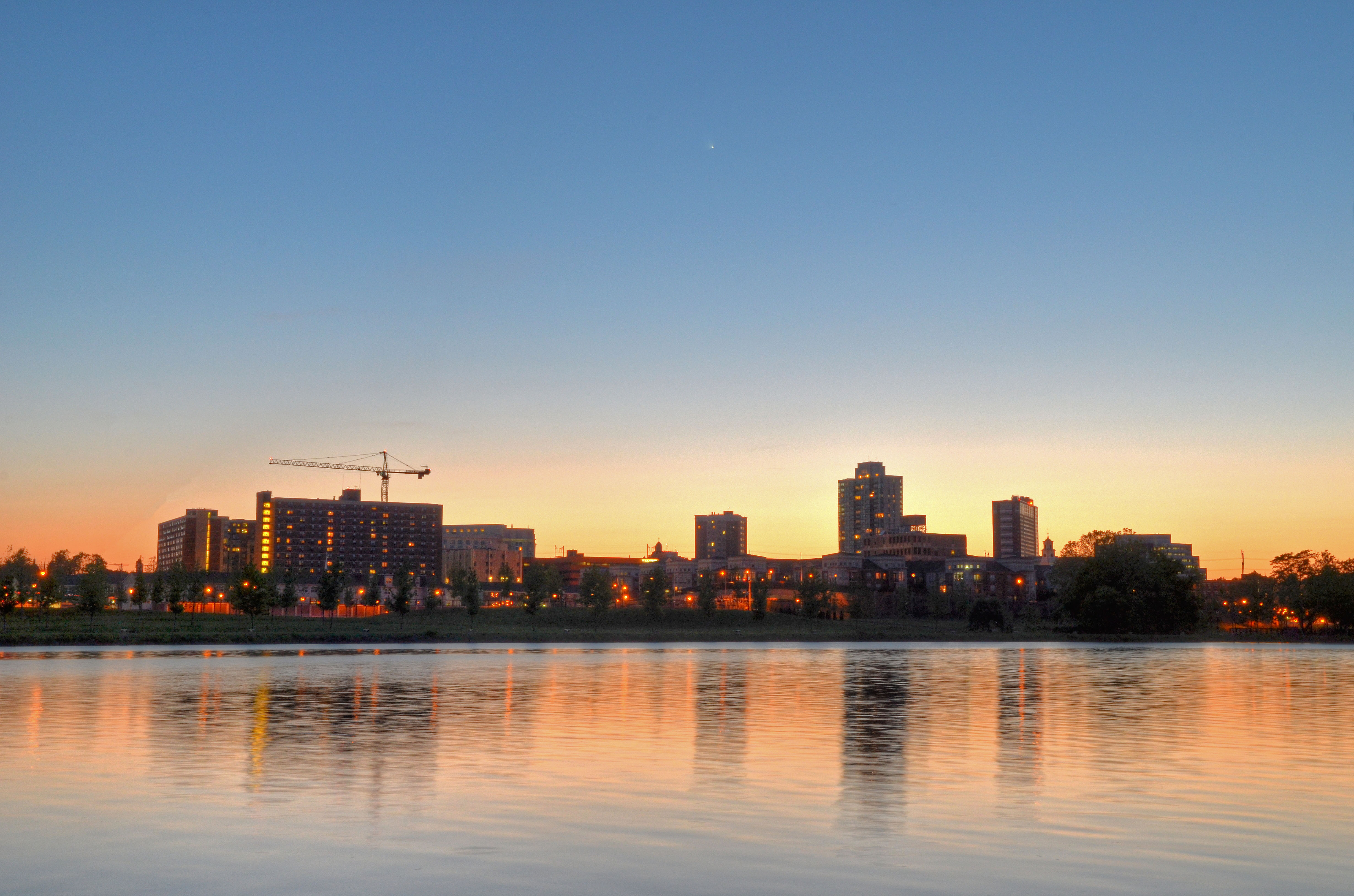 The New Brunswick, NJ Skyline at Sunset